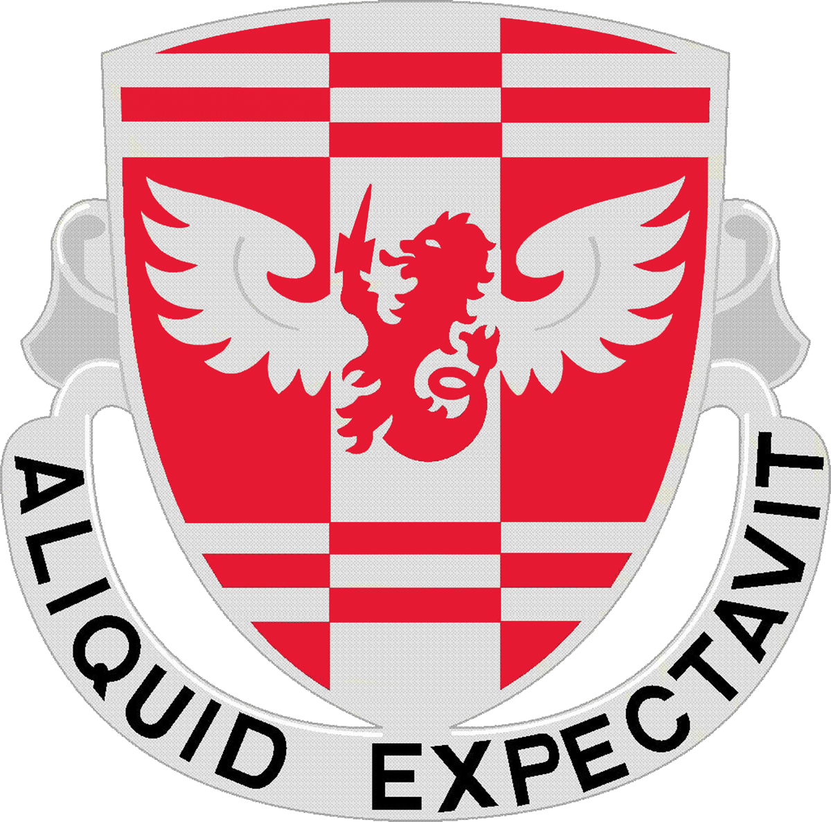 United States Army 864th Engineer Battalion Distinctive Unit Insignia. Made with Photoshop.